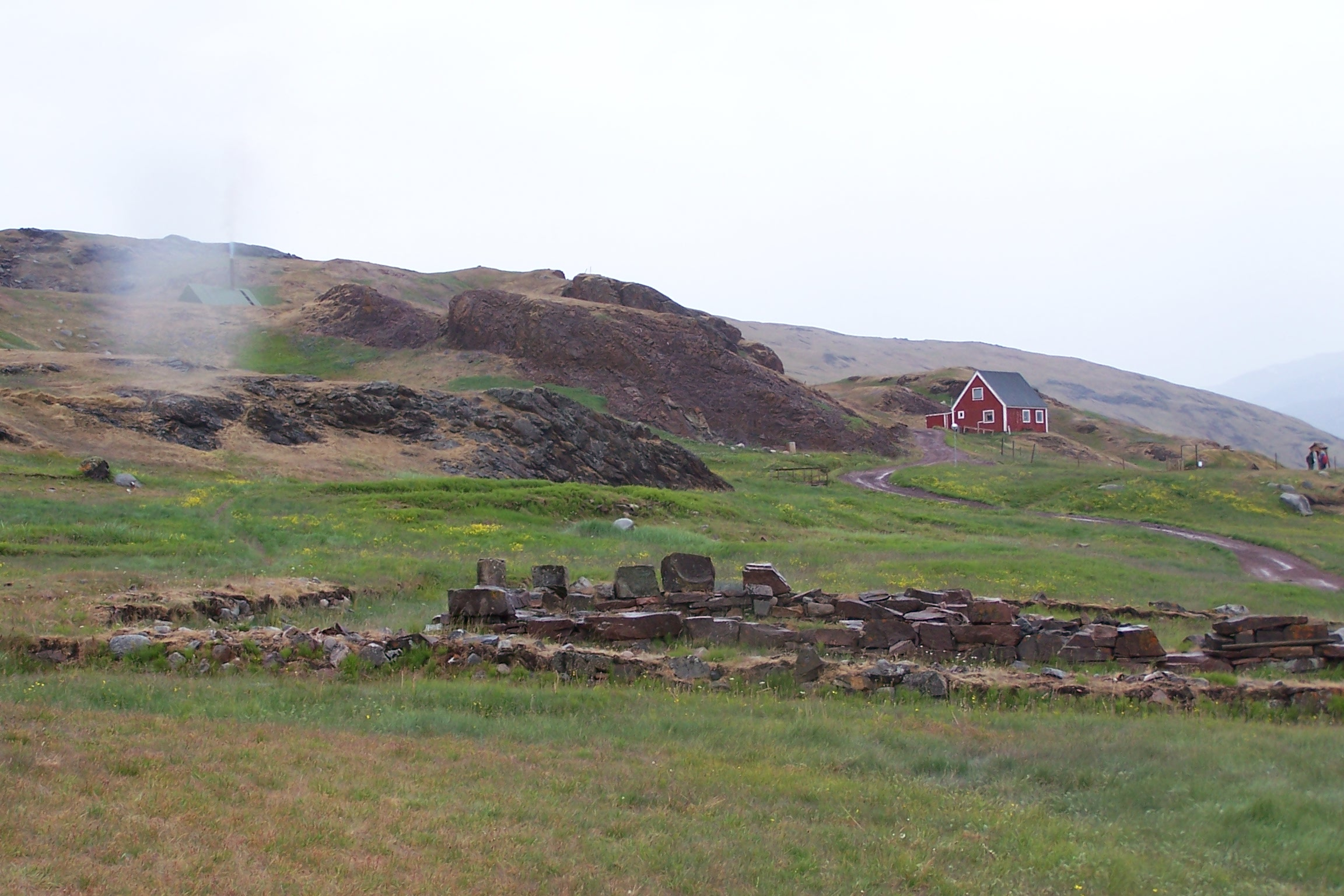 Ruins of Brattahlíð/Brattahlid, Erik the Red's yard in Greenland